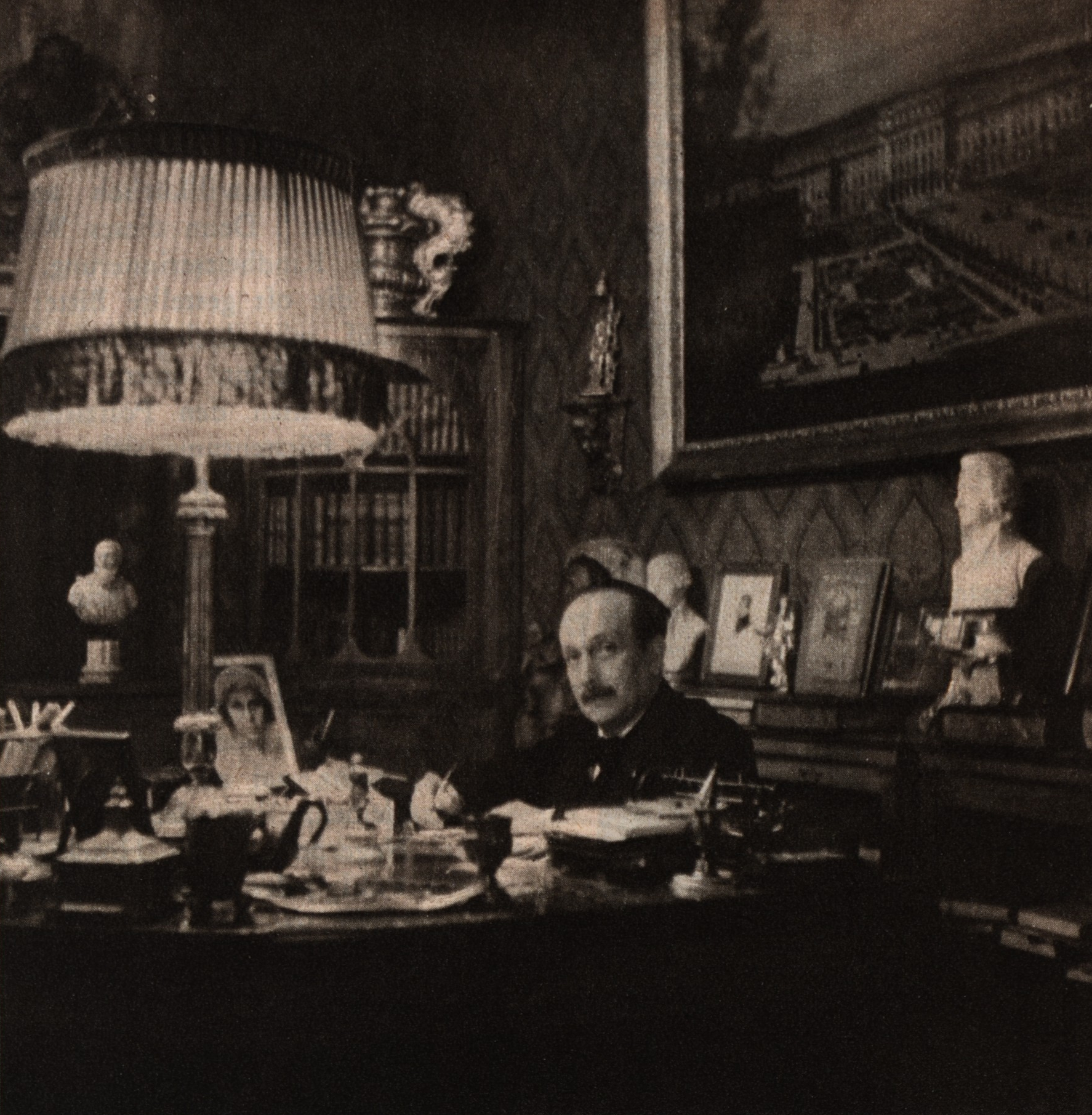 Felix Salten (1869–1945) at his desk.